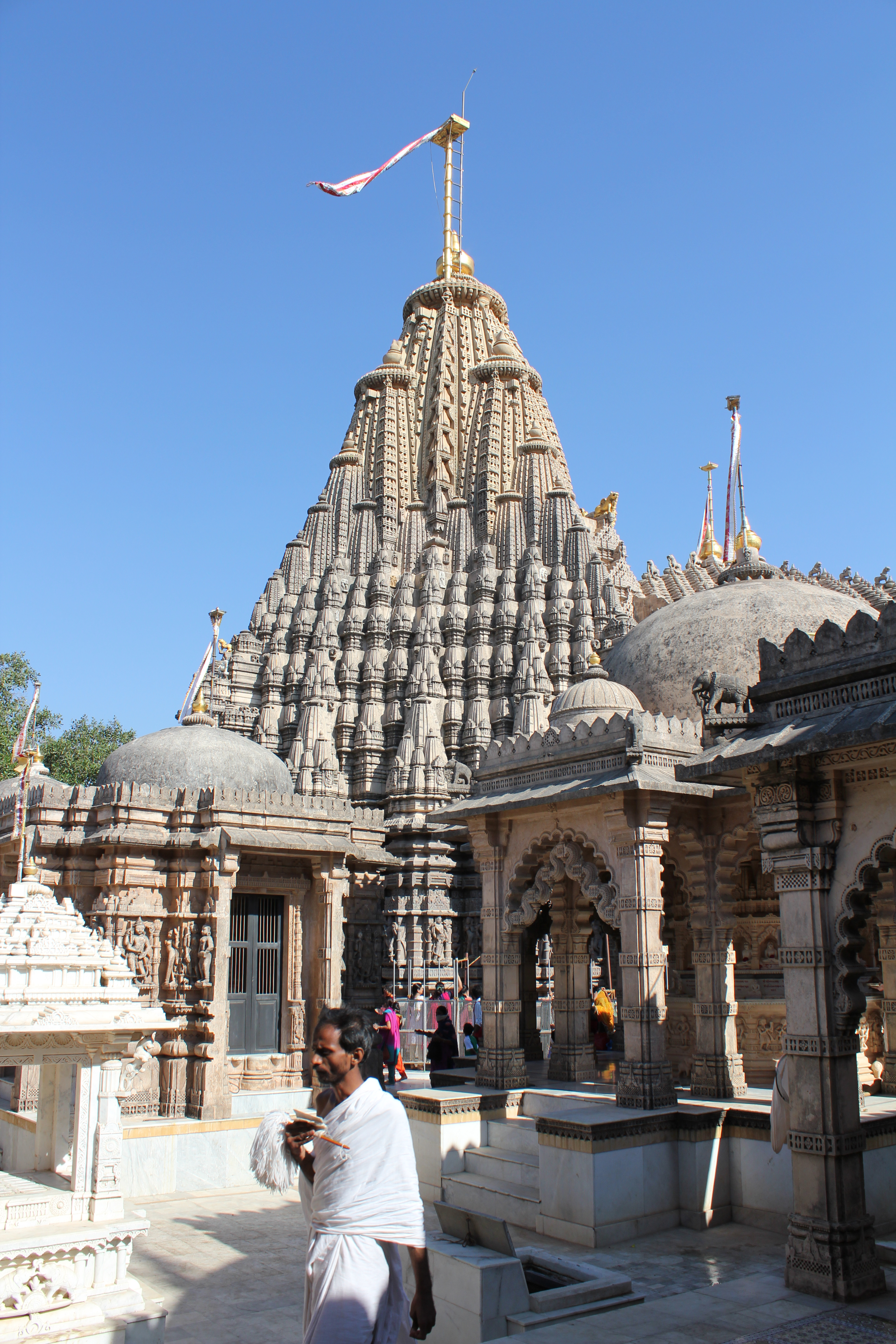 Palitana, Shatrunjaya, Adishwar Temple Palitana (formerly known as Padliptapur) is a city in the state of Gujarat, India. It is a major pilgrimage centre for Jains, and has been nicknamed "City of Temples". The Palitana temples of Jainism are located on the Shatrunjaya Hill. Along with Shikharji in the state of Jharkhand, the two sites are considered the holiest of all pilgrimage places by the Jain community. As the temple-city was built to be an abode for the divine, no one is allowed to stay overnight, including the priests. Every Jain believes that a visit to this group of temples is essential as a once in a life time chance to achieve nirvana or salvation. This site on Shatrunjaya hill is considered sacred by Jains. There are approximately 863 marble-carved temples on the hills.The main temple is reached by stepping up 3500 steps. It is said that 23 tirthankaras (a human being who helps in achieving liberation and enlightenment), except Neminatha (a liberated soul which has destroyed all of its karma), sanctified the hill by their visits. The main temple is dedicated to Rishabha, the first tirthankara; it is the holiest shrine for the Svetambara Murtipujaka sect. Digambara Jain have only one temple here. The Adishvara Temple, dated to the 16th century, has an ornamented spire; its main image is that of Rishabha. (source